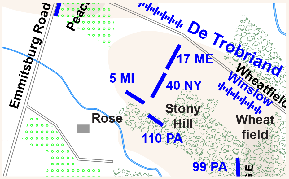 Position of Trobriand's brigade at Gettysburg